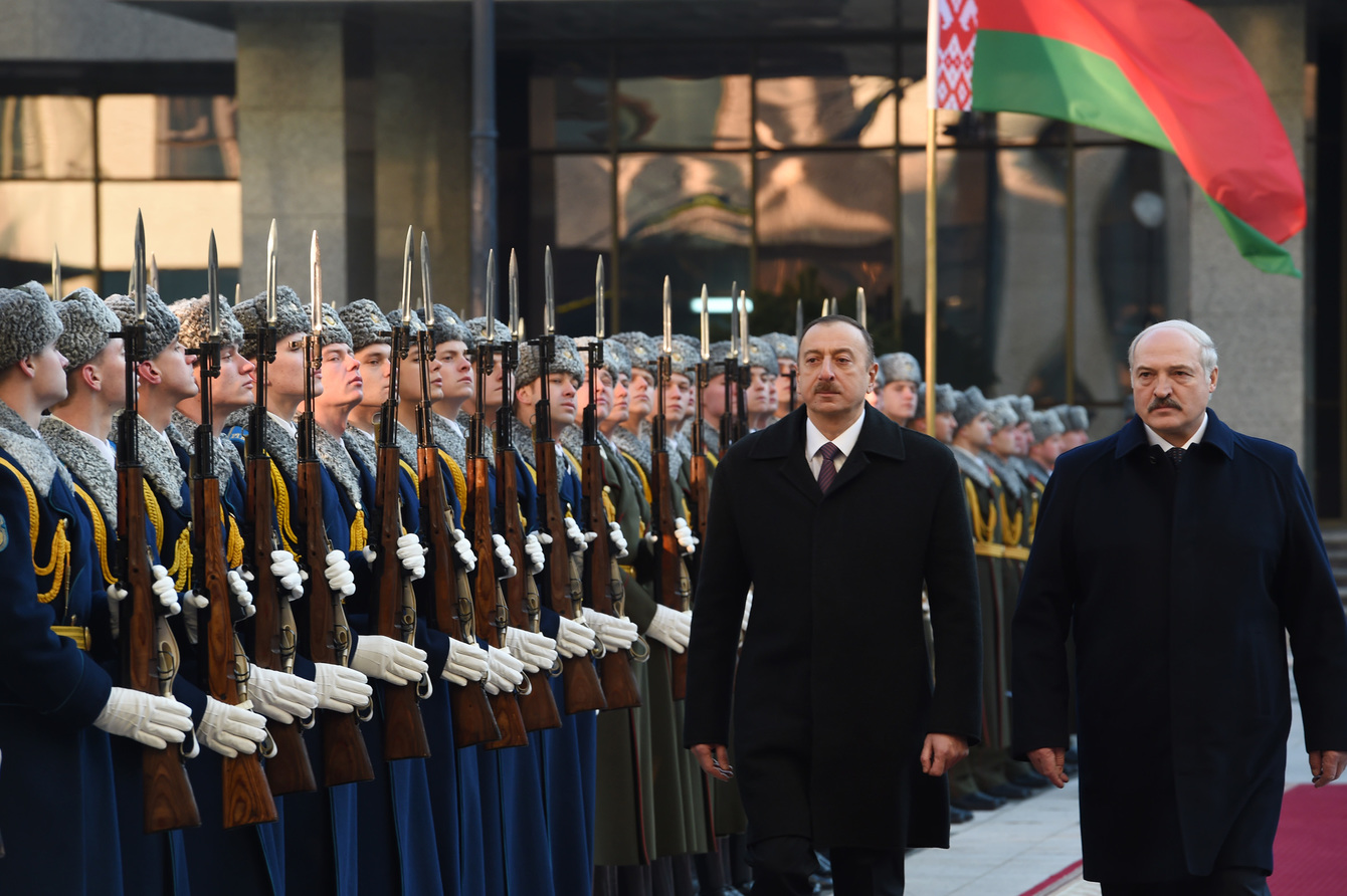 Official welcoming ceremony for Ilham Aliyev was held in Belarus